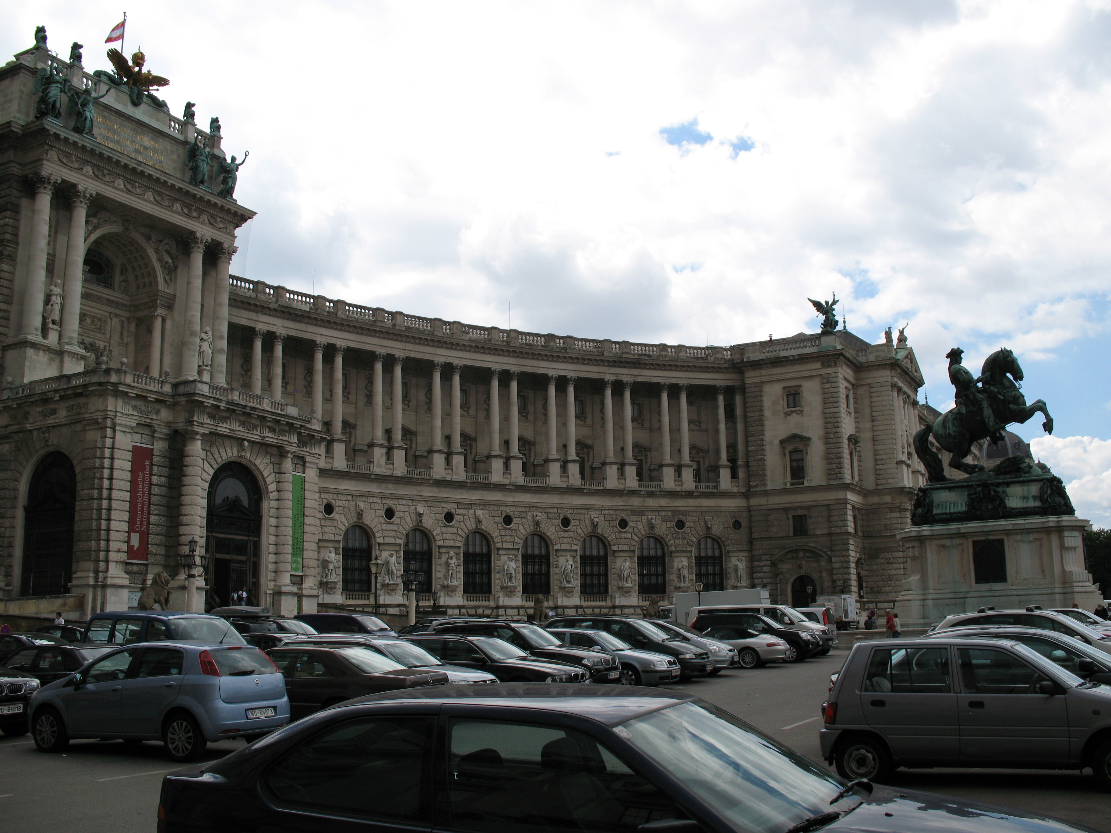 National Library, Vienna, Austria